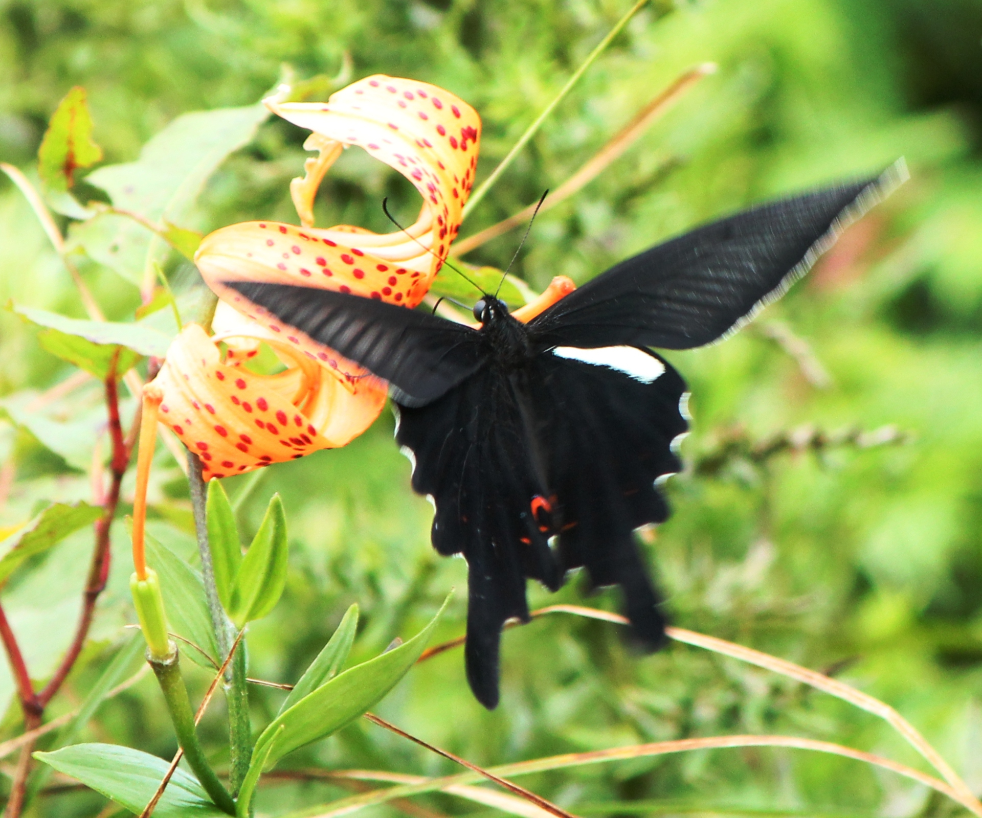 Papilio macilentus on Lilium leichtlinii in Shiga pref., Japan.